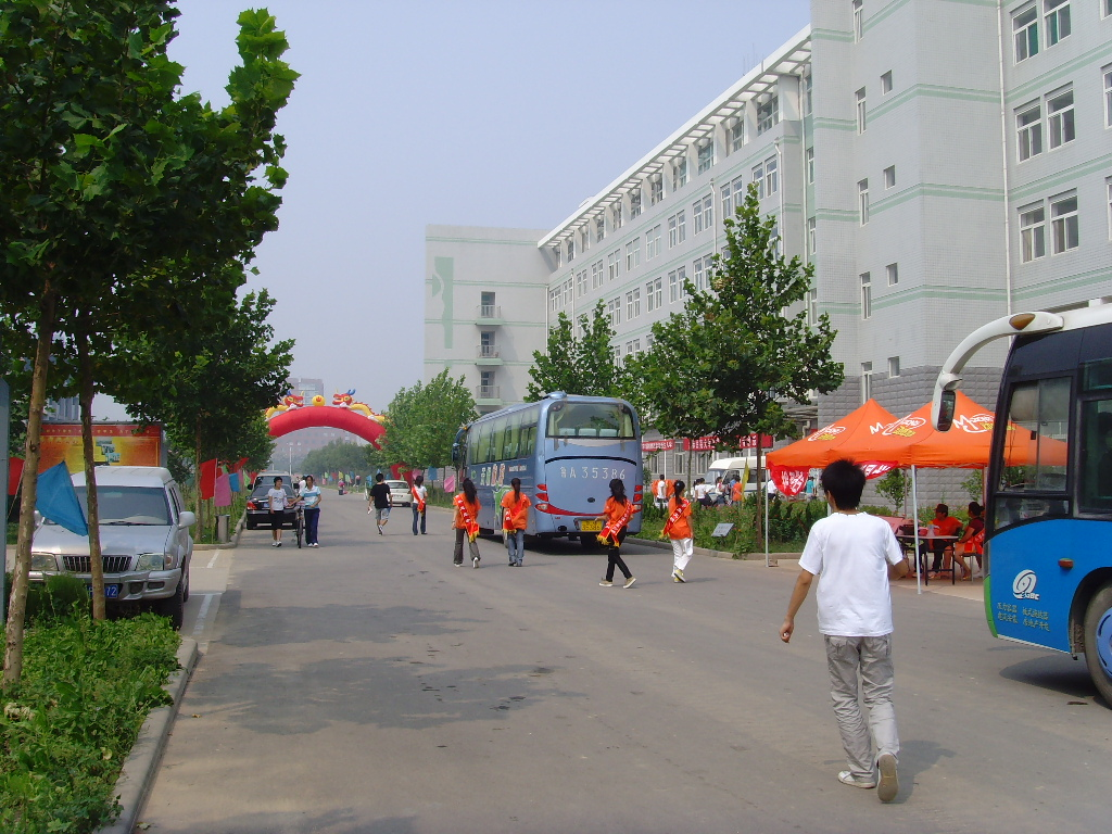 A picture of Chinese Women's Academy at Shandong Changqing Xiaoqu.